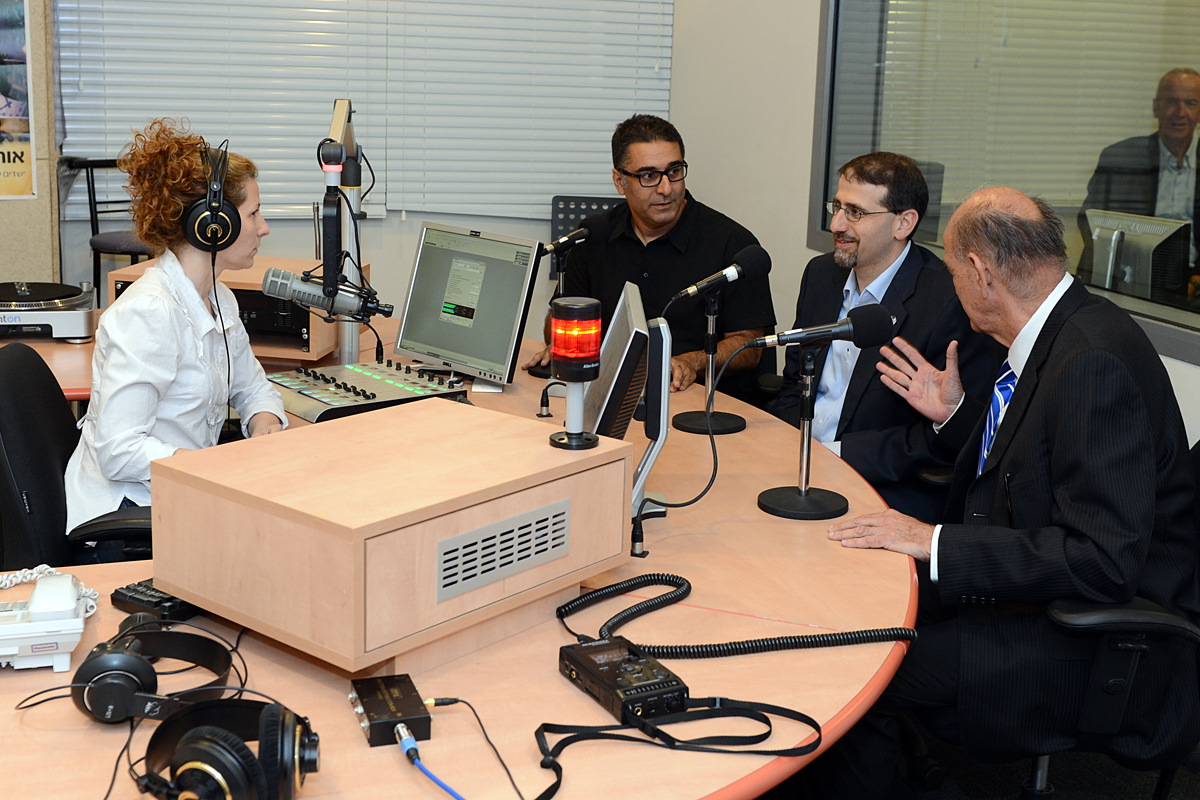 DSC_4905Izrael Ambassador Shapiro Connects with Future Leaders in the Yezraeel Valley